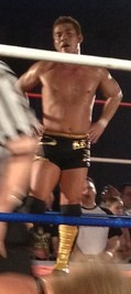 Masaaki Mochizuki at the DGUSA Open the Ultimate Gate event on 30 March 2012